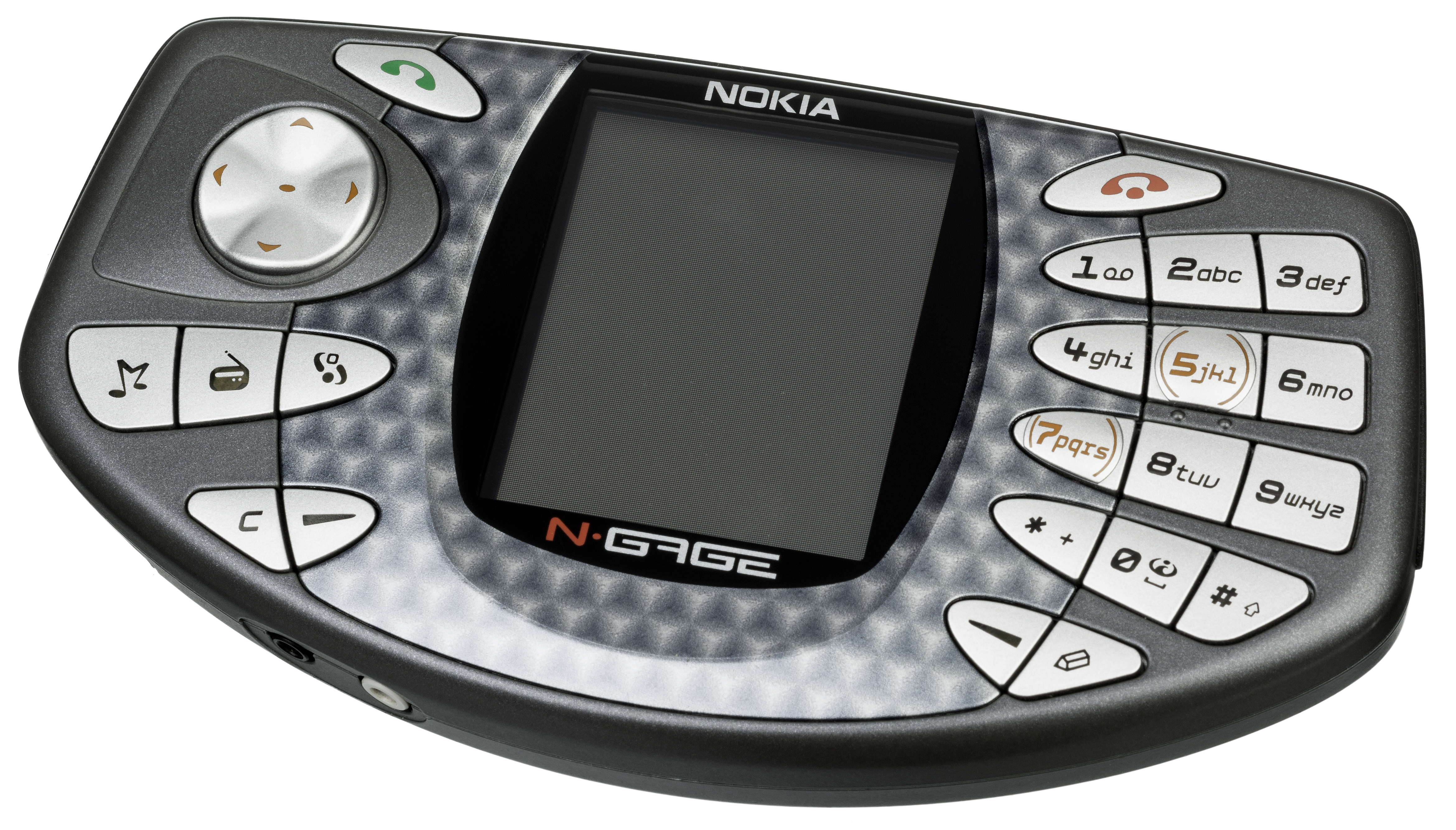 The Nokia N-Gage, a mobile phone and handheld gaming hybrid, came out in 2003 and was followed by the N-Gage QD a year later. It was not successful as a phone or a gaming platform.